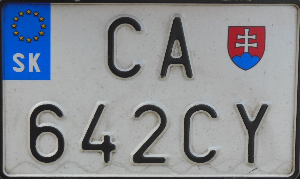 Slovak motorcycle licence/number plate. CA=Čadca district.